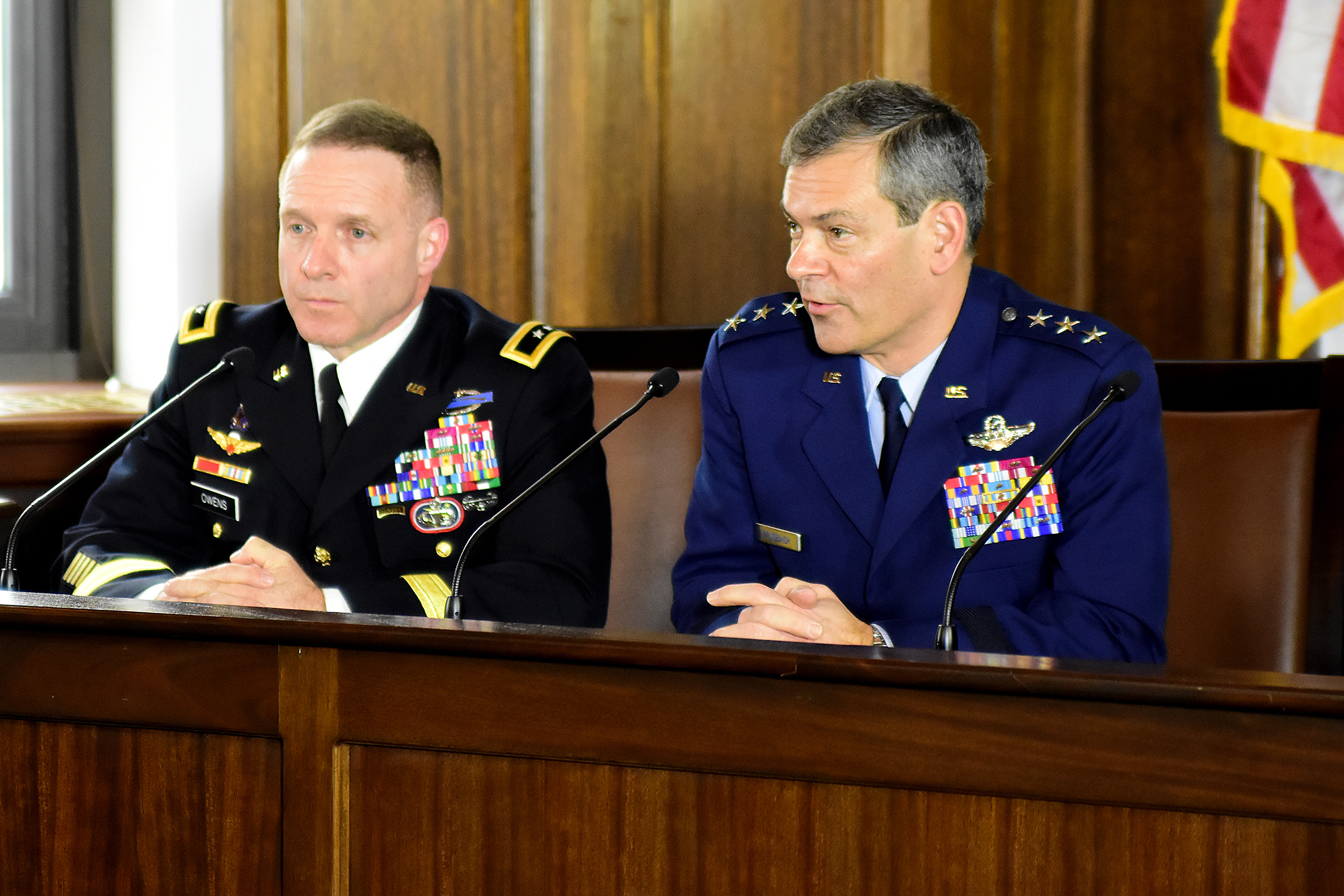 Alaska’s senior military leaders traveled to the state capitol in Juneau March 23 to brief the legislature’s Joint Armed Services Committee about armed forces activities in Alaska. Air Force Lt. Gen. Kenneth Wilsbach, commander of Alaskan Command, Alaskan North American Aerospace Defense Command Region and 11th Air Force; Army Maj. Gen. Bryan Owens, U.S. Army Alaska commanding general; Maj. Gen. Laurel Hummel, The Adjutant General, Alaska National Guard and Commissioner of Alaska Department of Military and Veterans’ Affairs; and Rear Adm. Michael F. McAllister, commander of the Seventeenth U.S. Coast Guard District, met with the capitol press corps after the briefing to talk about military activities. (Army photo/John Pennell)